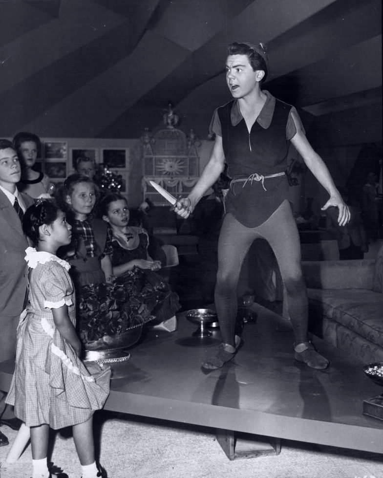 Publicity photo of American teen actor, Bobby Driscoll promoting his appearance as Peter Pan on the CBS television special The Walt Disney Christmas Show, which aired on December 25, 1951.